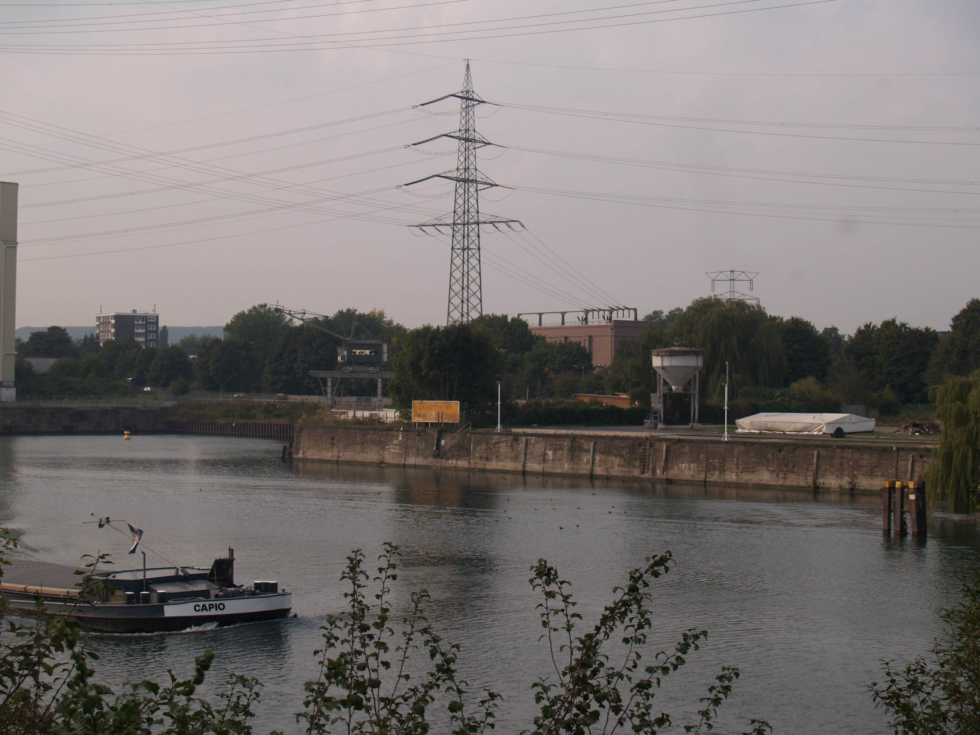 The port of Recklinghausen, Germany, at the Rhein-Herne-Kanal in 2005